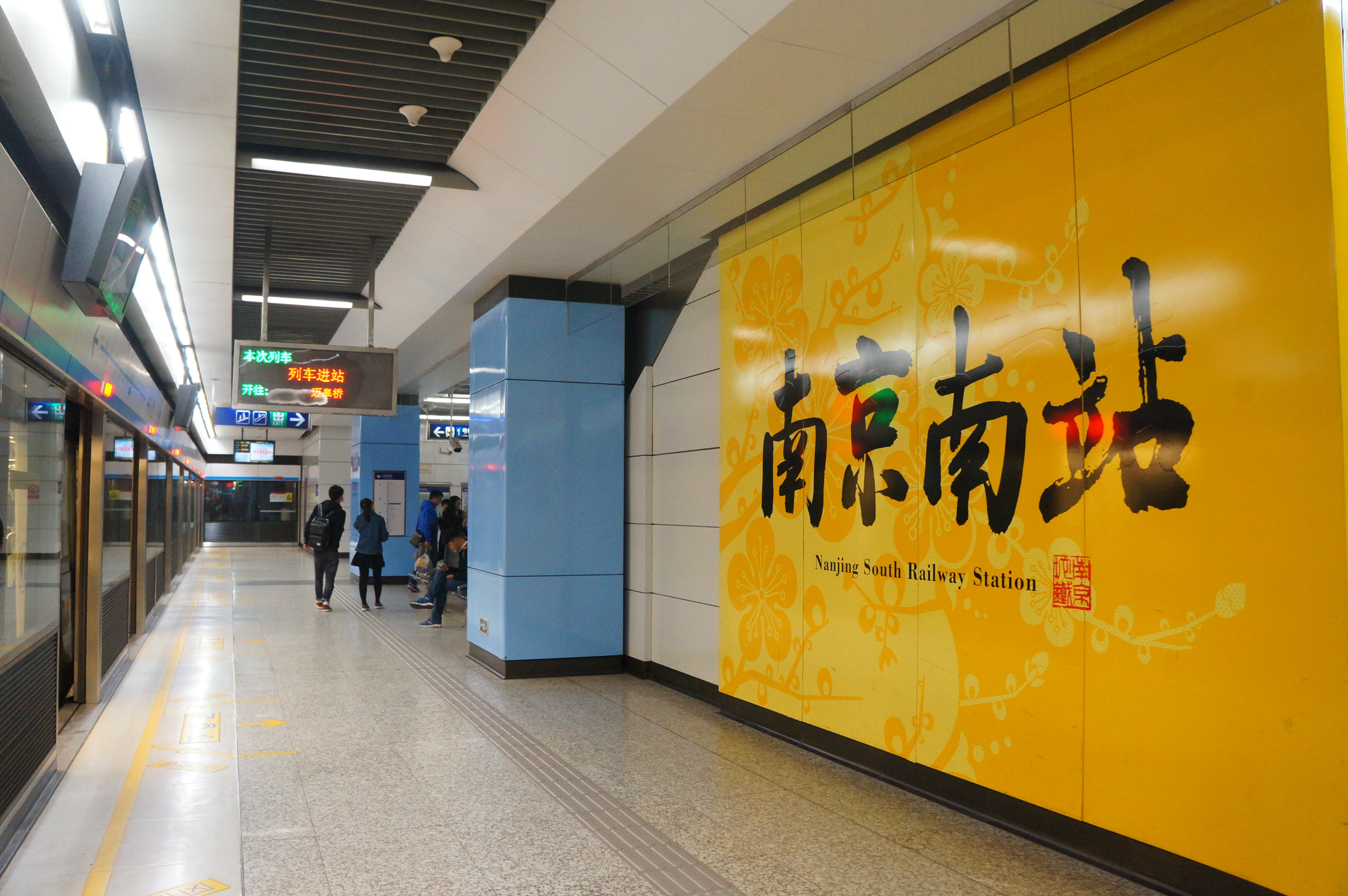 201704 Nameboard of Nanjing South Railway Station